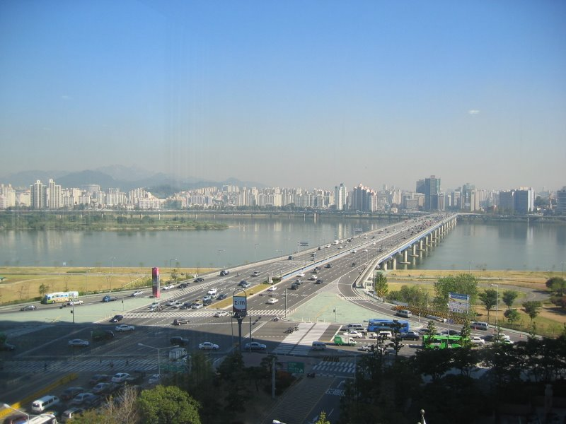 Seoul, looking over the river